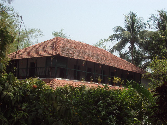 Samtaber